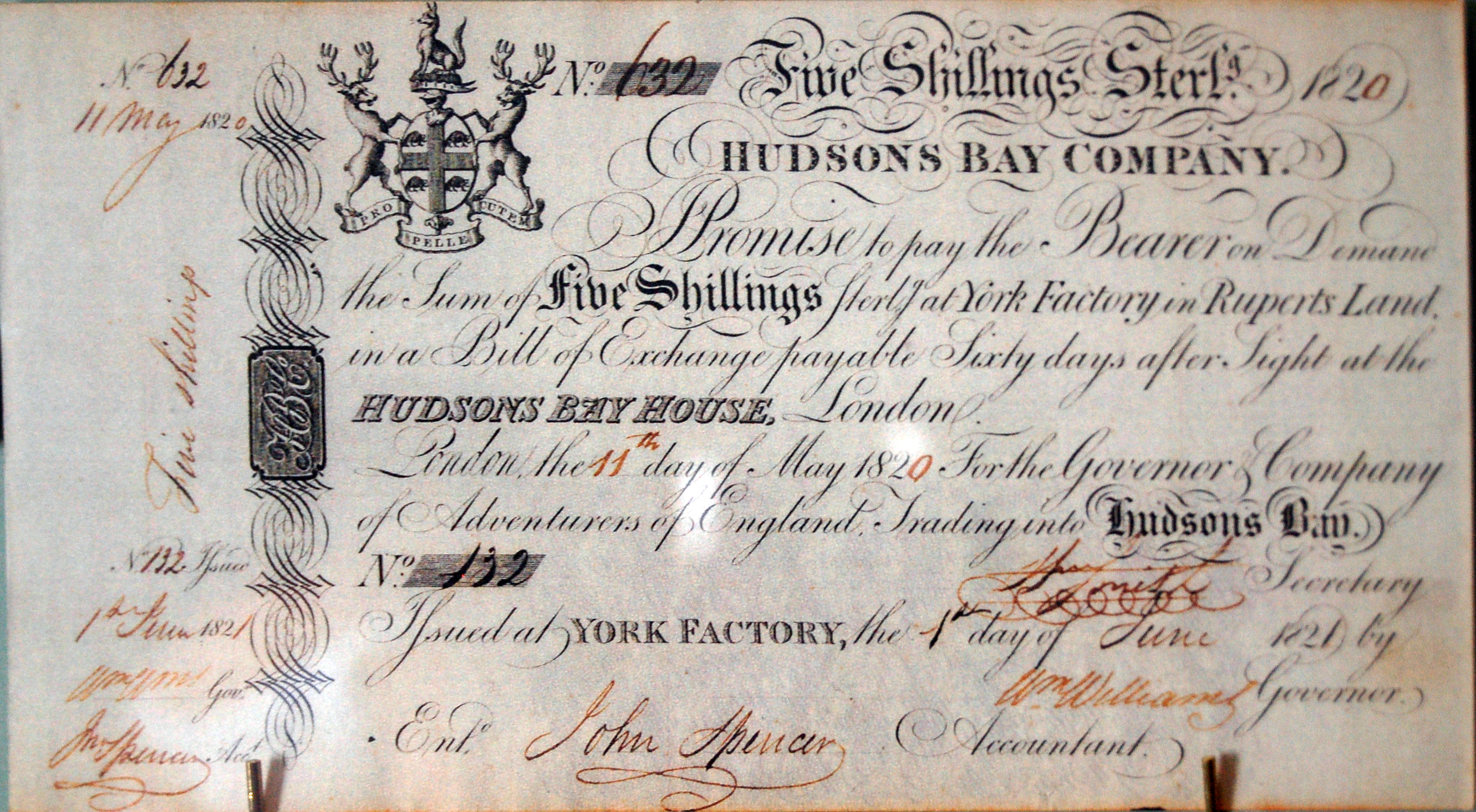 Hudsons Bay Company currency given to fur traders, dated 1820, on exhibit at Fort York Museum, Toronto, Canada